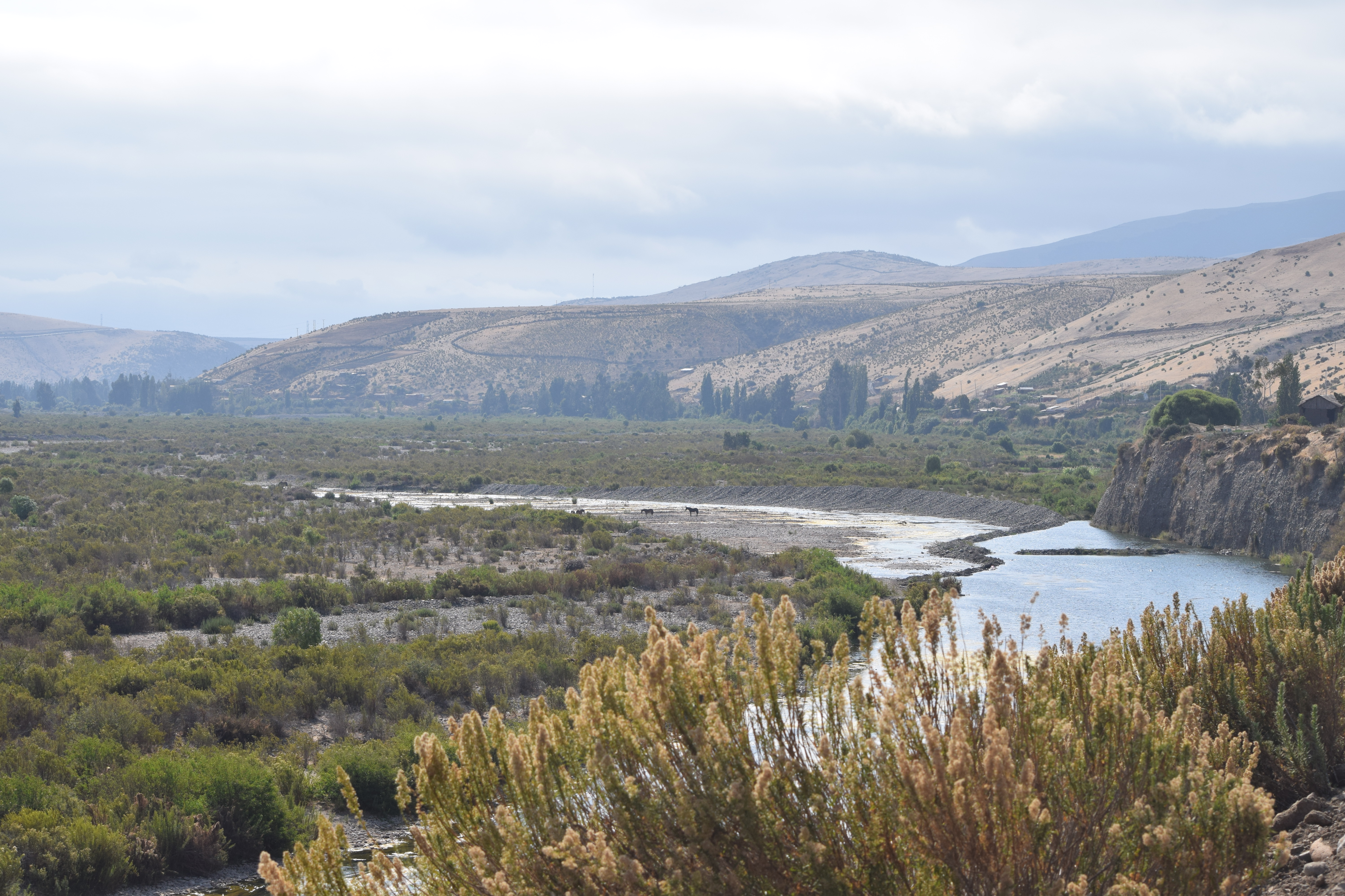 Image of the Choapa River in summer 2018. The river has its source in the Andean Mountains flows down through the Coquimbo Region and finally flows into the Pacific, on the coast of Huentelauquén